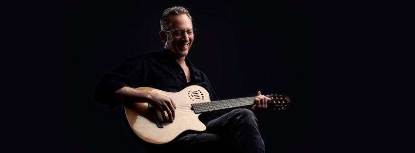 Darden Smith photographed by Stacy L. Pearsall